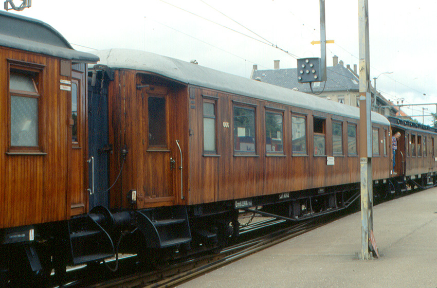 A coach with a wood body from around 1910, shortly after the Bergen Line (Bergensbanen) between Oslo and Bergen was opened. The photo is at the station in Bergen. I rode from Bergen to Minde (3.6 km, 2.2 miles) and back. The train was owned and maintained by a large railroad club in Bergen.